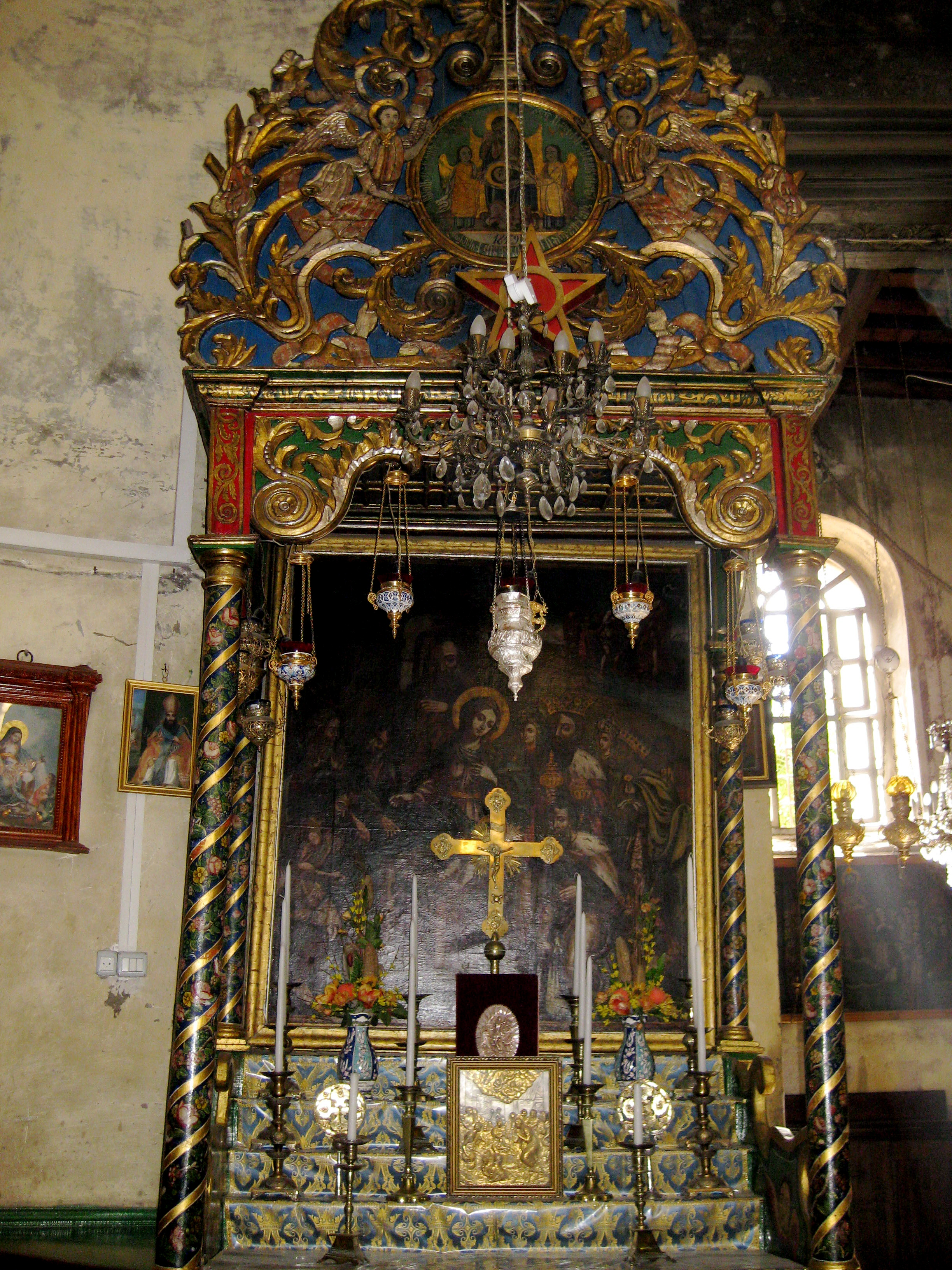 Church of the Nativity. Armenian Altar. Behlehem.